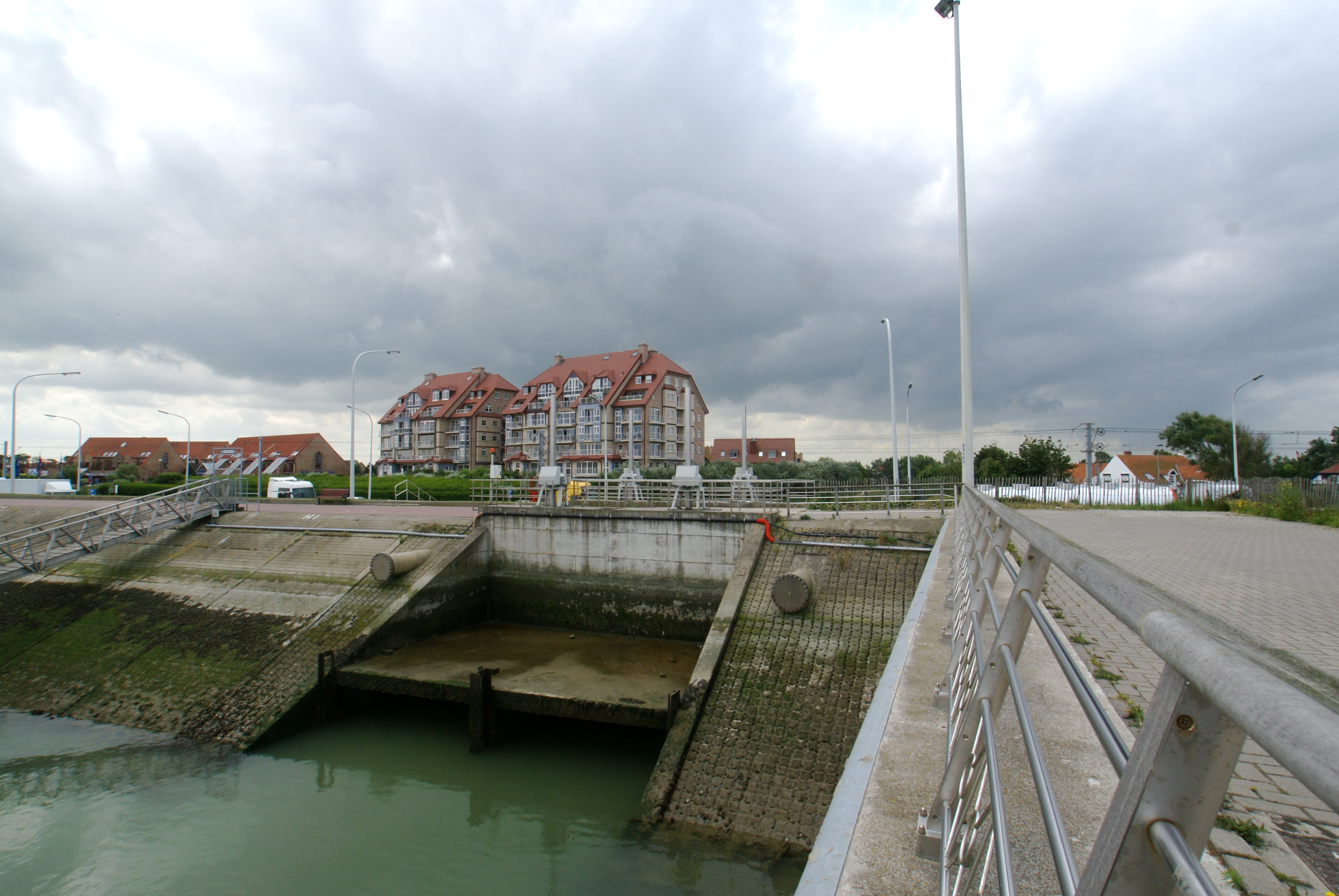 Blankenberge (Belgium): Discharge sluse